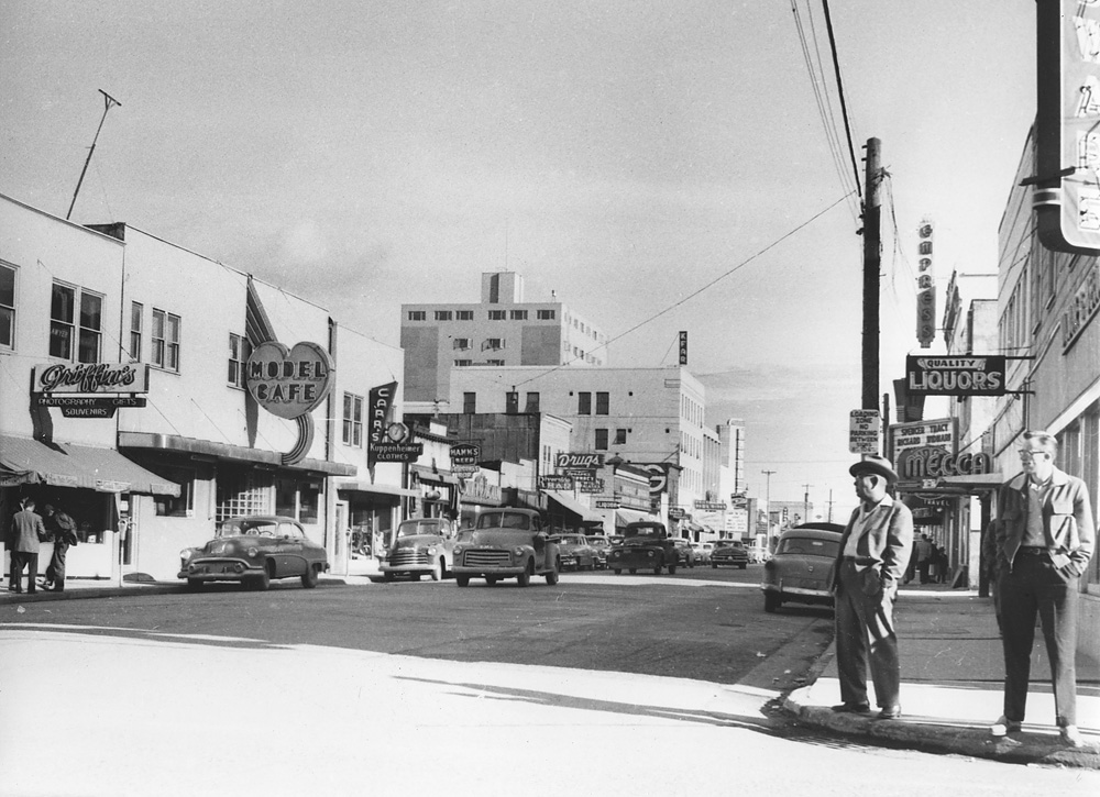 Meyer, Elisabeth "Hovedgaten i Fairbanks. I forgrunnen to menn. Alaska 1950 tallet." [The main street in Fairbanks. In the foreground two men. Alaska 1950's.] 16,7 x 22,9 cm Gelatin silver print, baryta NMFF.002537-16